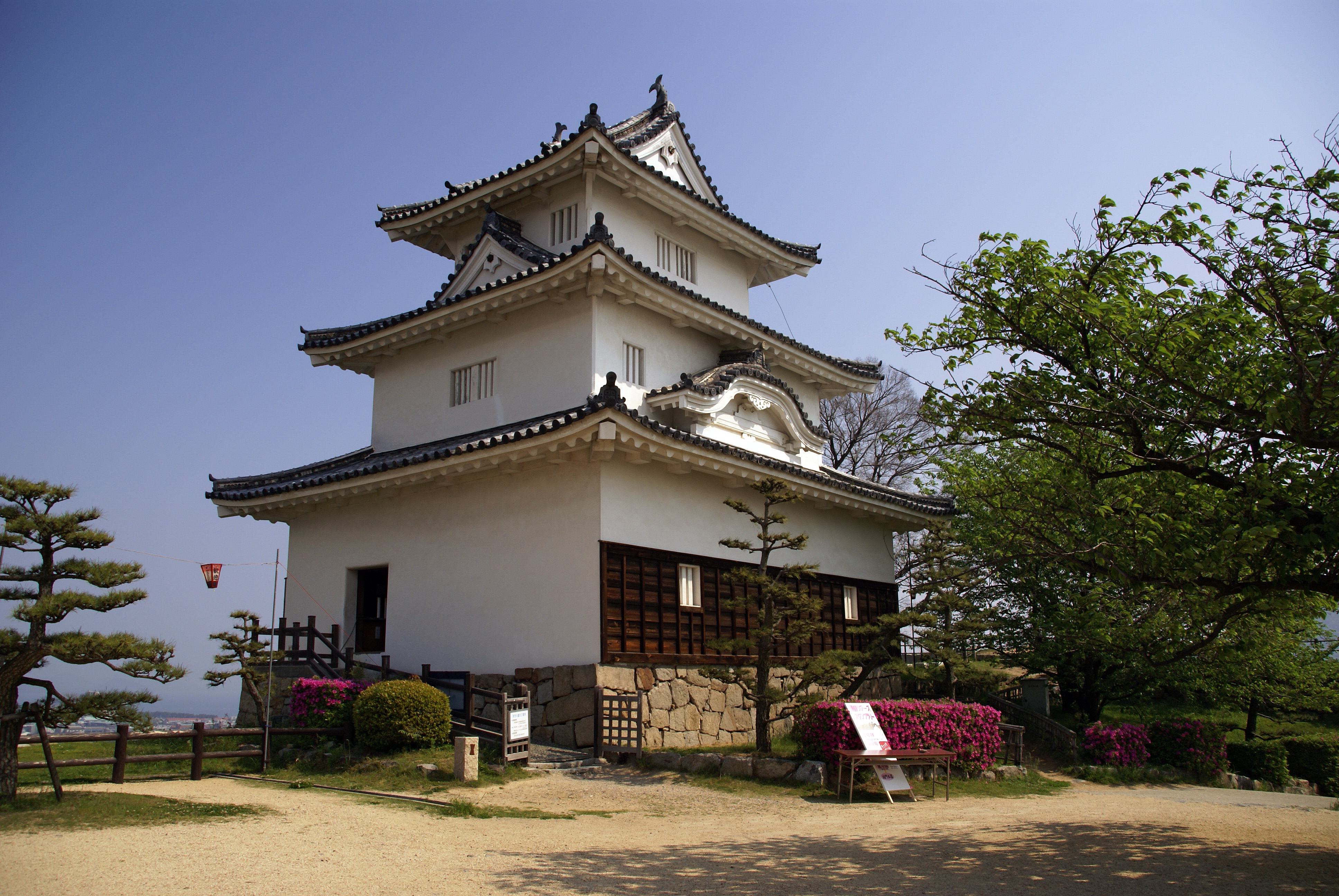 Marugame Castle in Marugame, Kagawa prefecture, Japan